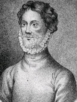 Edmund of Langley 1st Duke of York.